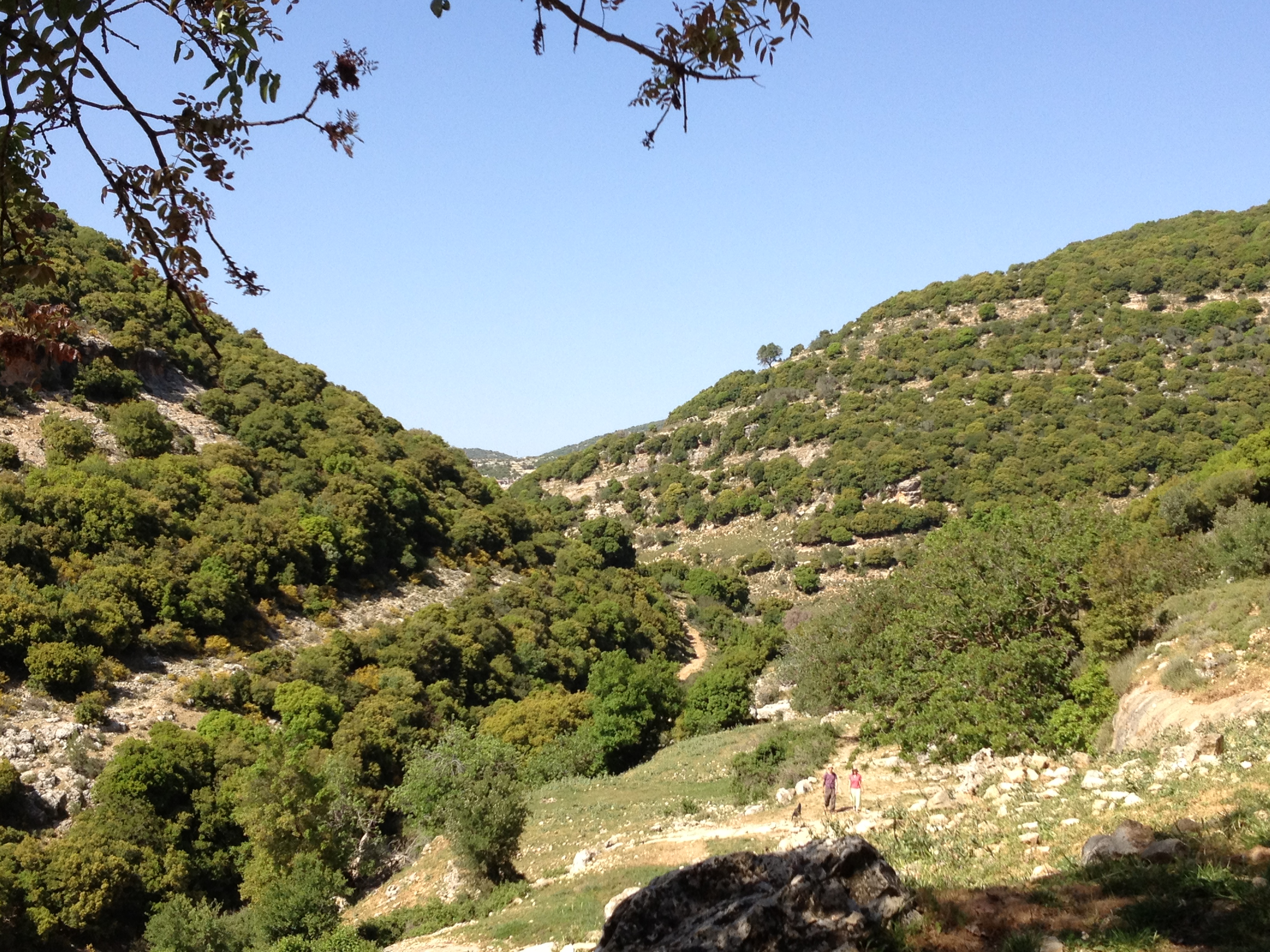 landscape of Upper Galilee, in Kziv stream, Israel